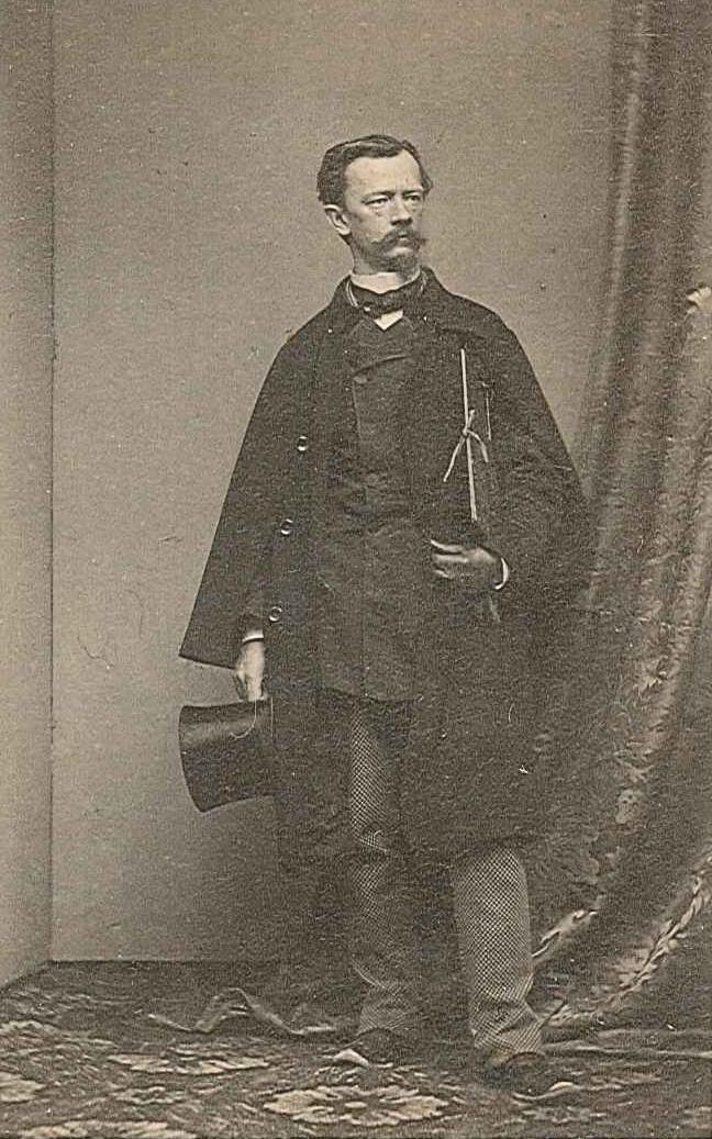 Eugen Adam, German painter